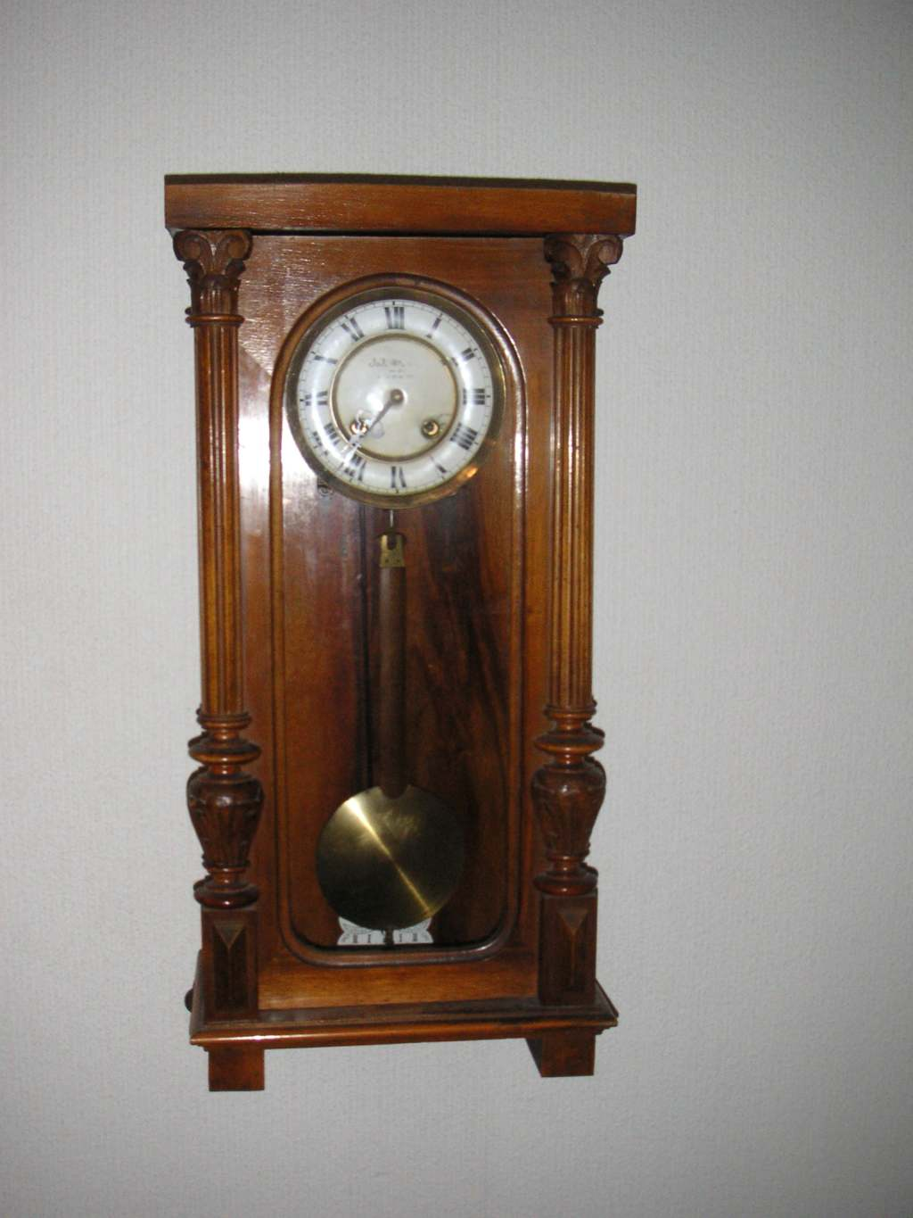 pendulum clock